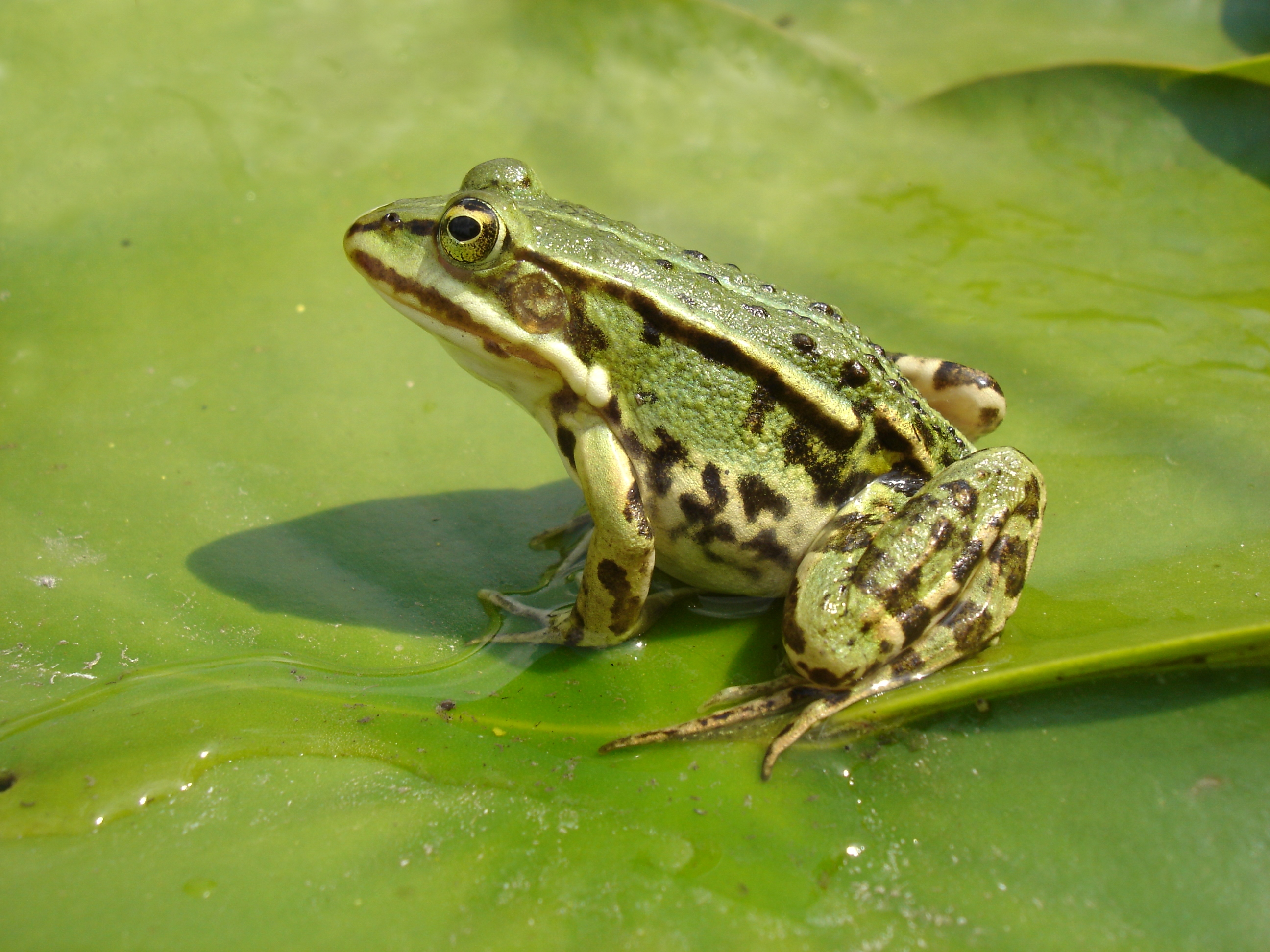 A specimen of Rana esculenta sitting on a nympheae leaf, living in a garden pond.